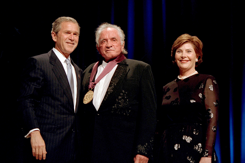 President George W. Bush and Mrs. Laura Bush stand with National Medal of Arts recipient Johnny Cash Monday, April 22, 2002, during ceremonies at Constitution Hall in Washington, D.C. Photo by Paul Morse, Courtesy George W. Bush Presidential Library and Museum